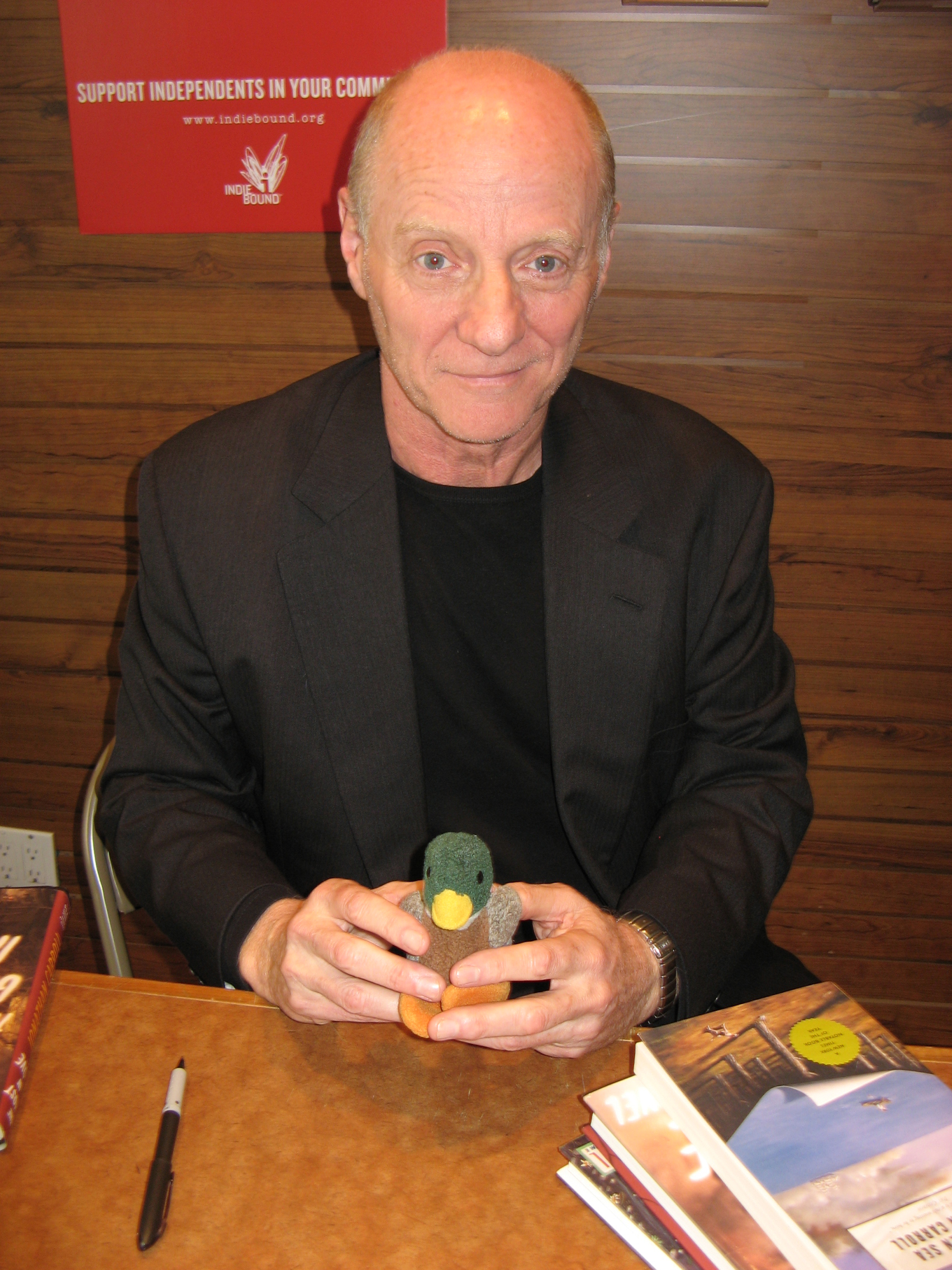 Photo taken at a reading of "The Ghost in Love" at Stacey's Bookstore in San Francisco